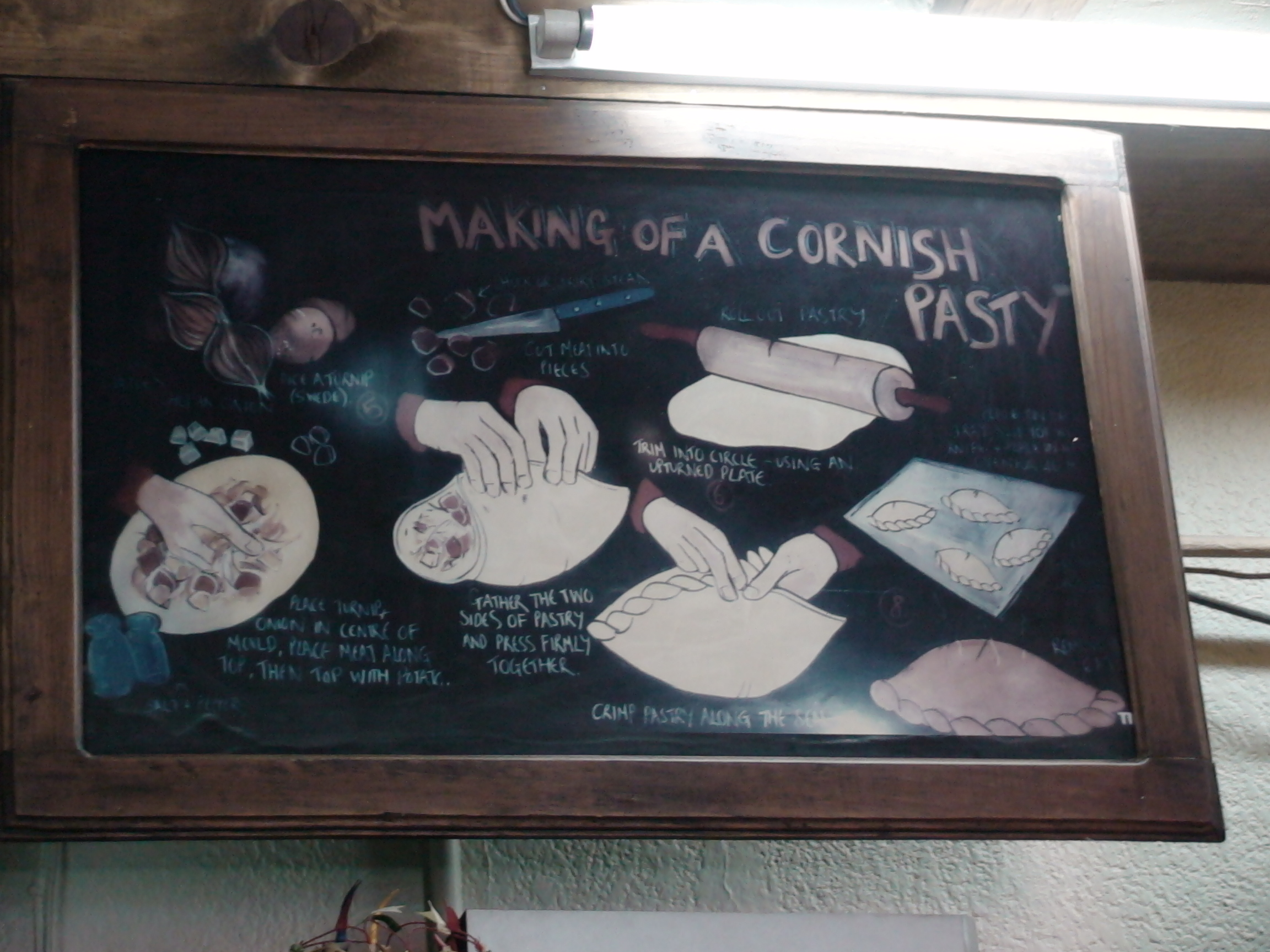 A sign on how to make a Cornish Pasty, in Mineral del Monte, Hidalgo, Mexico